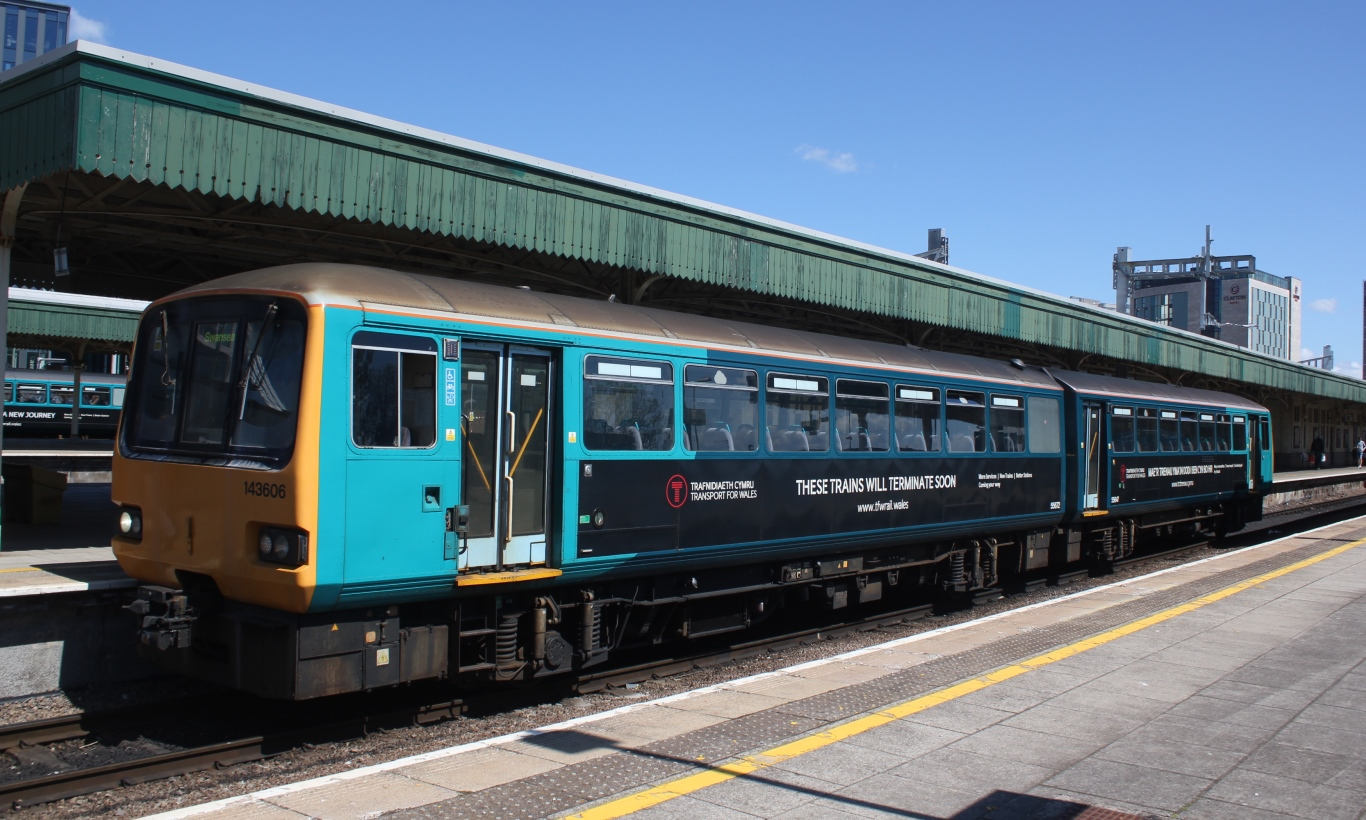 'Pacer' 143606 at Cardiff Central with a 'Swanline' service to Swansea. Transport for Wales will withdraw all these four-wheel units by the end of the year and have put adverts on the side with phrases such as these trains will terminate soon.